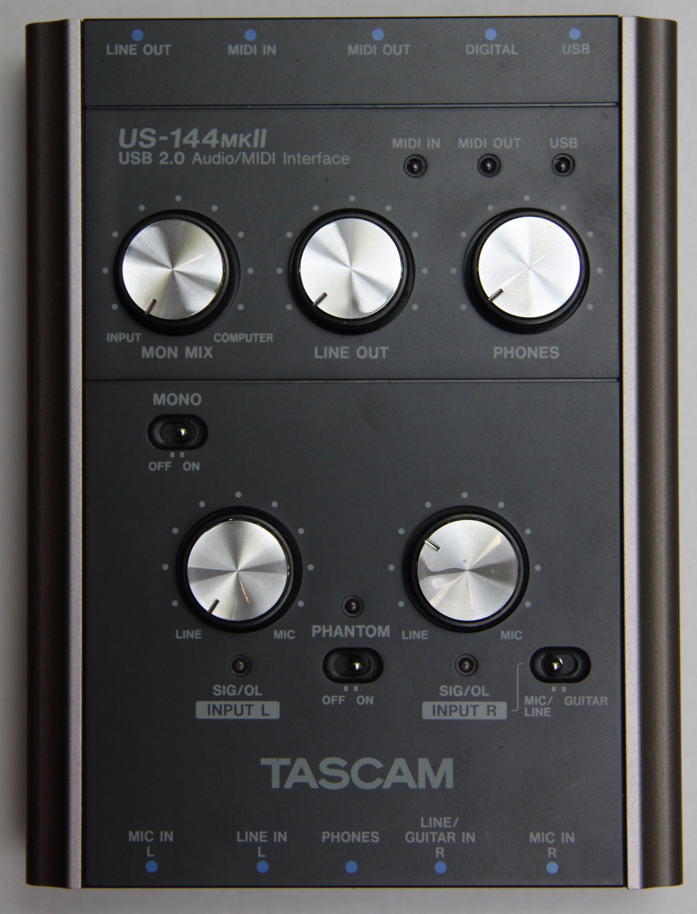 Audio interface Tascam US-144MKII